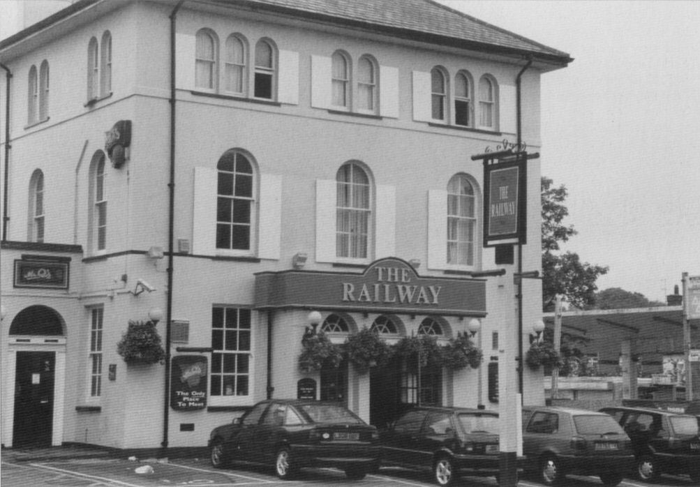 This was not a place I frequented. I was fonder of pubs in Pinner such as the Victory.